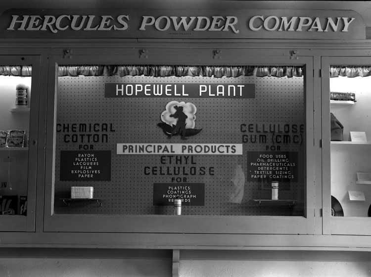 Title: Display in municipal building Date: 1955 May Identifier: Hopewell UMWA Collection 795A Format: 1 negative, safety film Repository: Library of Virginia, Prints and Photographs, 800 E. Broad St., Richmond, VA, 23219, USA, :8881/R